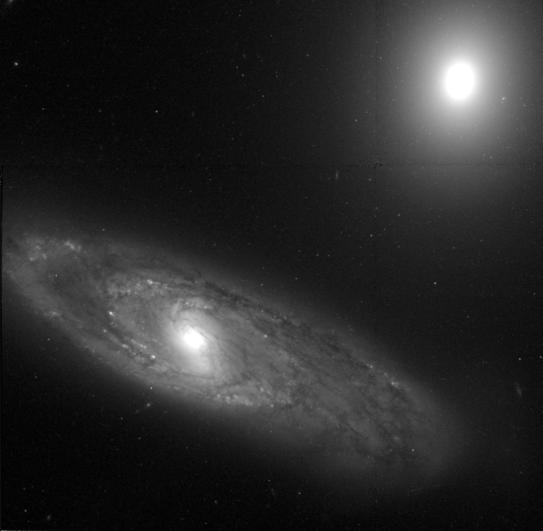 Color rendering is done by by Aladin-software (2000A&AS..143...33B.)